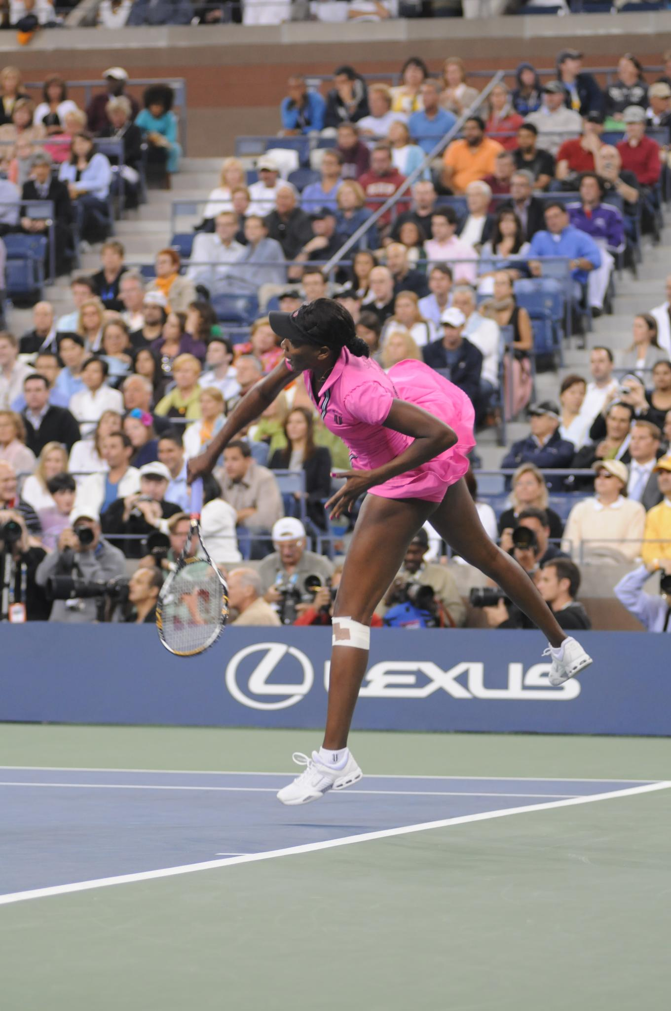 Venus Williams at the 2009 US Open